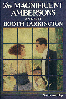 Front cover of the first-edition dust jacket of the novel The Magnificent Ambersons by Booth Tarkington